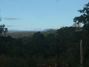 I took this photo